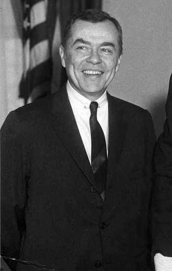 President John F. Kennedy Meets with Mayors of New Haven, Connecticut and Tucson, Arizona